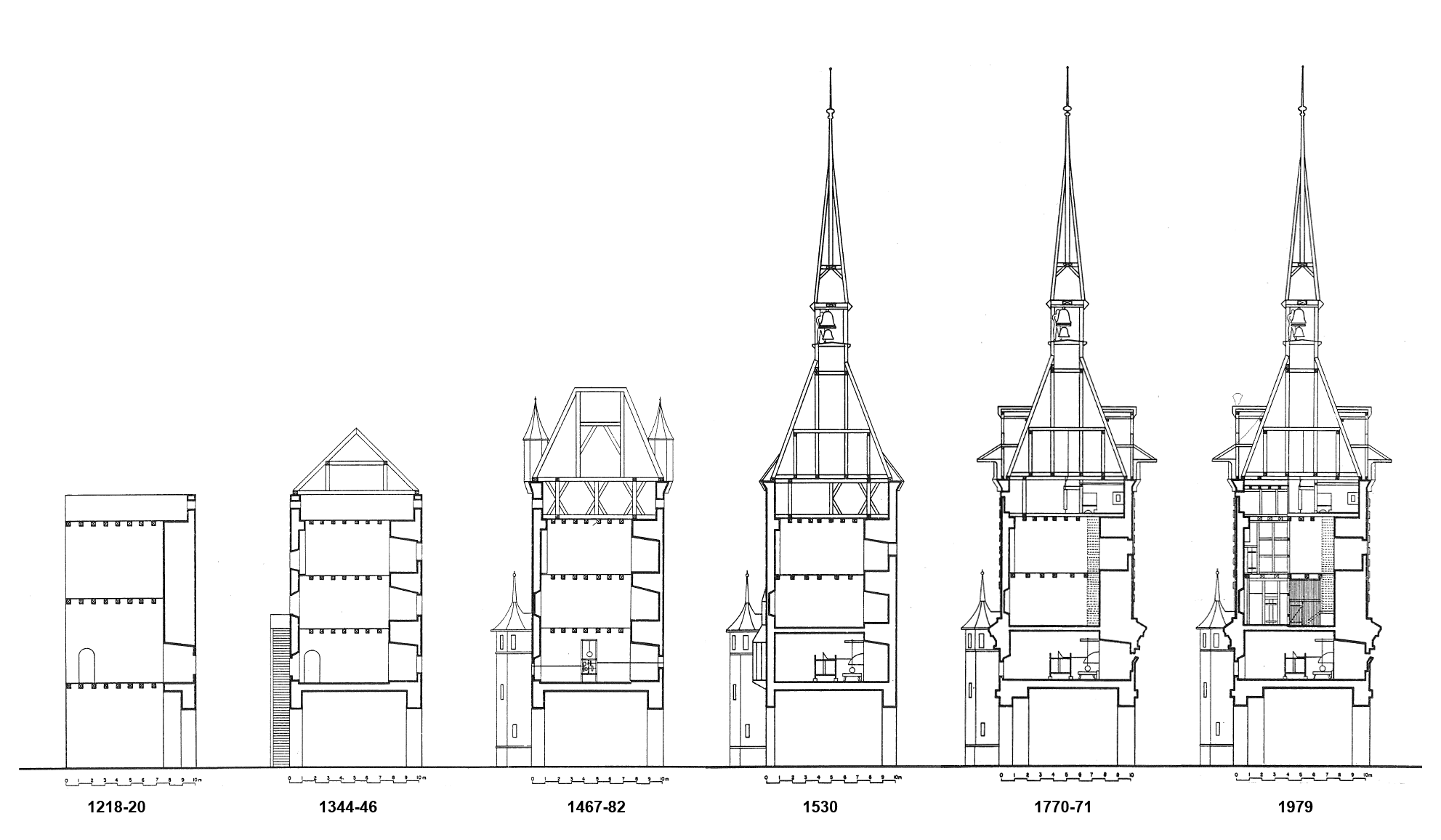 East/West cutaway drawings of the Zytglogge tower in Berne, Switzerland after each of its main construction periods.